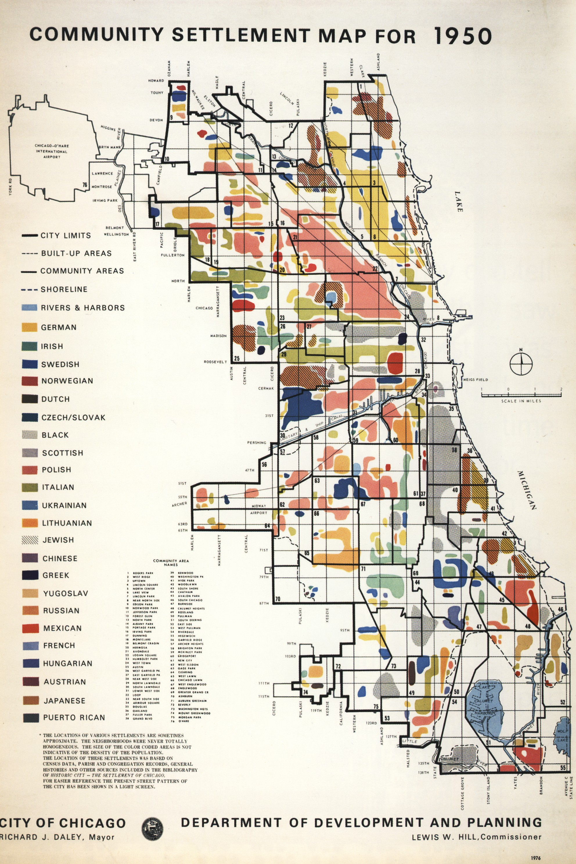 Map illustrating the dominant ethnicities of different areas of Chicago in 1950